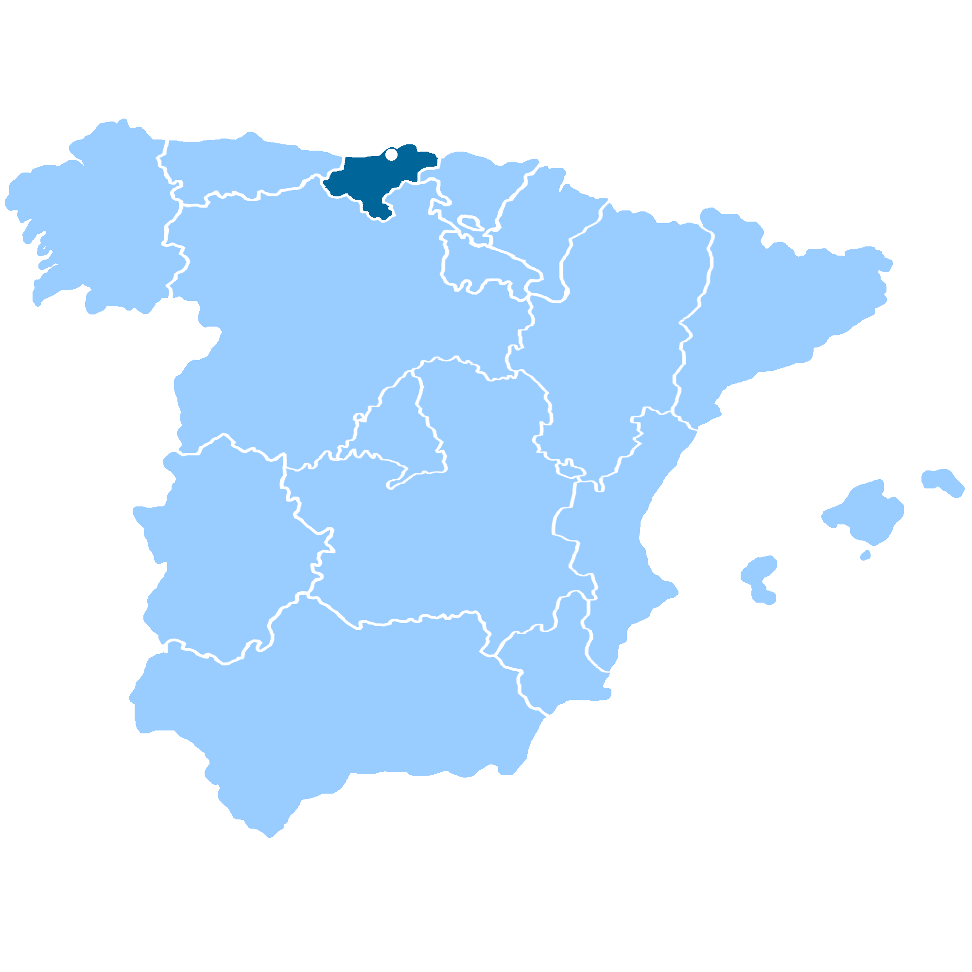 Location of Cantabria within Spain. (Capital also shown.)